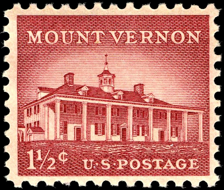 US Postage stamp: Mt. Vernon, 1956 issue, 1-1/2c, carmine-brown